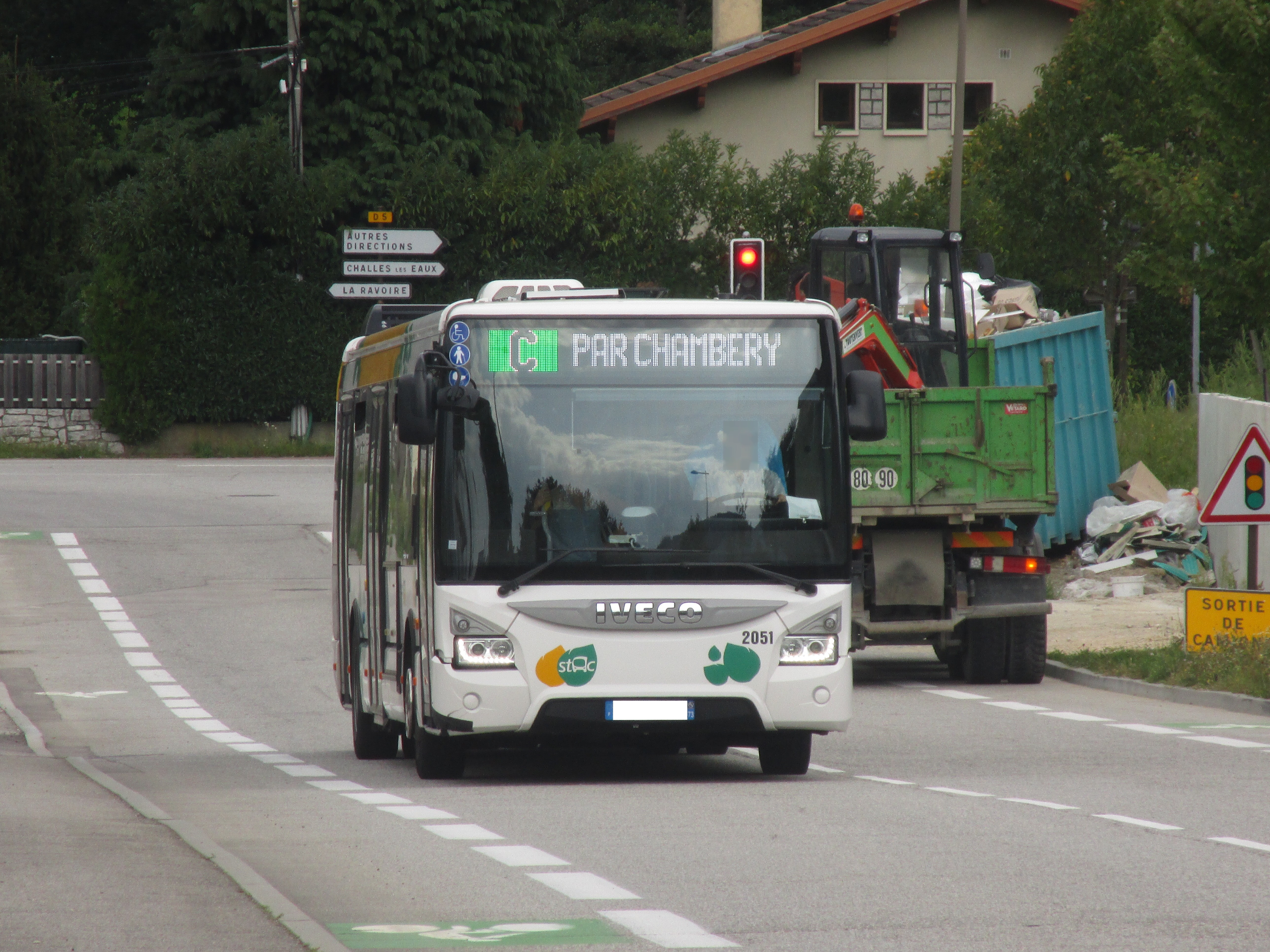 An Iveco Urbanway 12 (n°2051 of the French agglomeration community Chambéry Métropole - Cœur des Bauges) running on Stac’s line Chrono C — De Gaulle, La Motte-Servolex↔Challes Centre, Challes-les-Eaux — in the Avenue des Massettes (Challes-les-Eaux, France) on August 30, 2017.